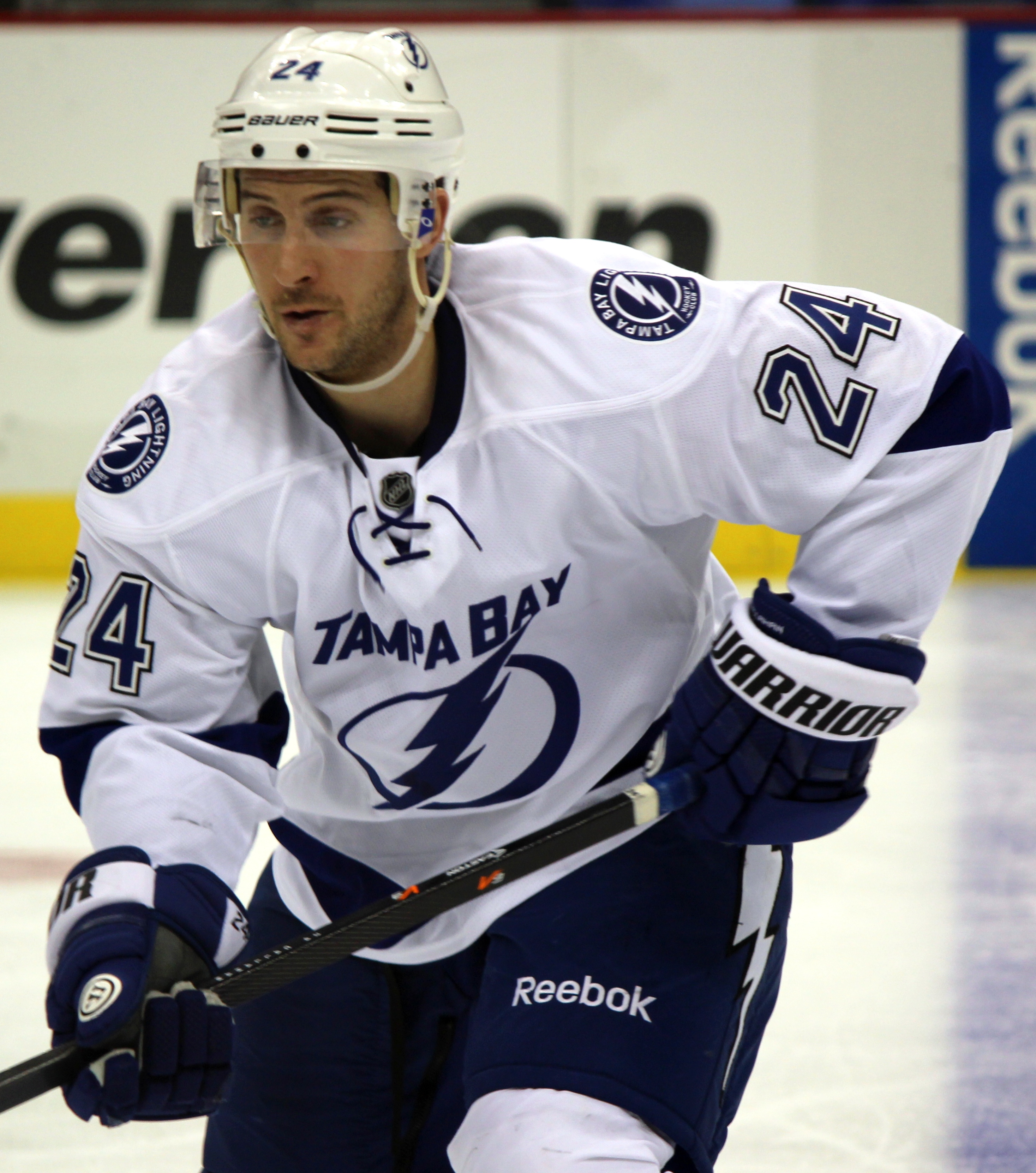 Tampa Bay Lightning forward Ryan Callhan skates against the Pittsburgh Penguins, March 22, 2014, at Consol Energy Center in Pittsburgh, PA.